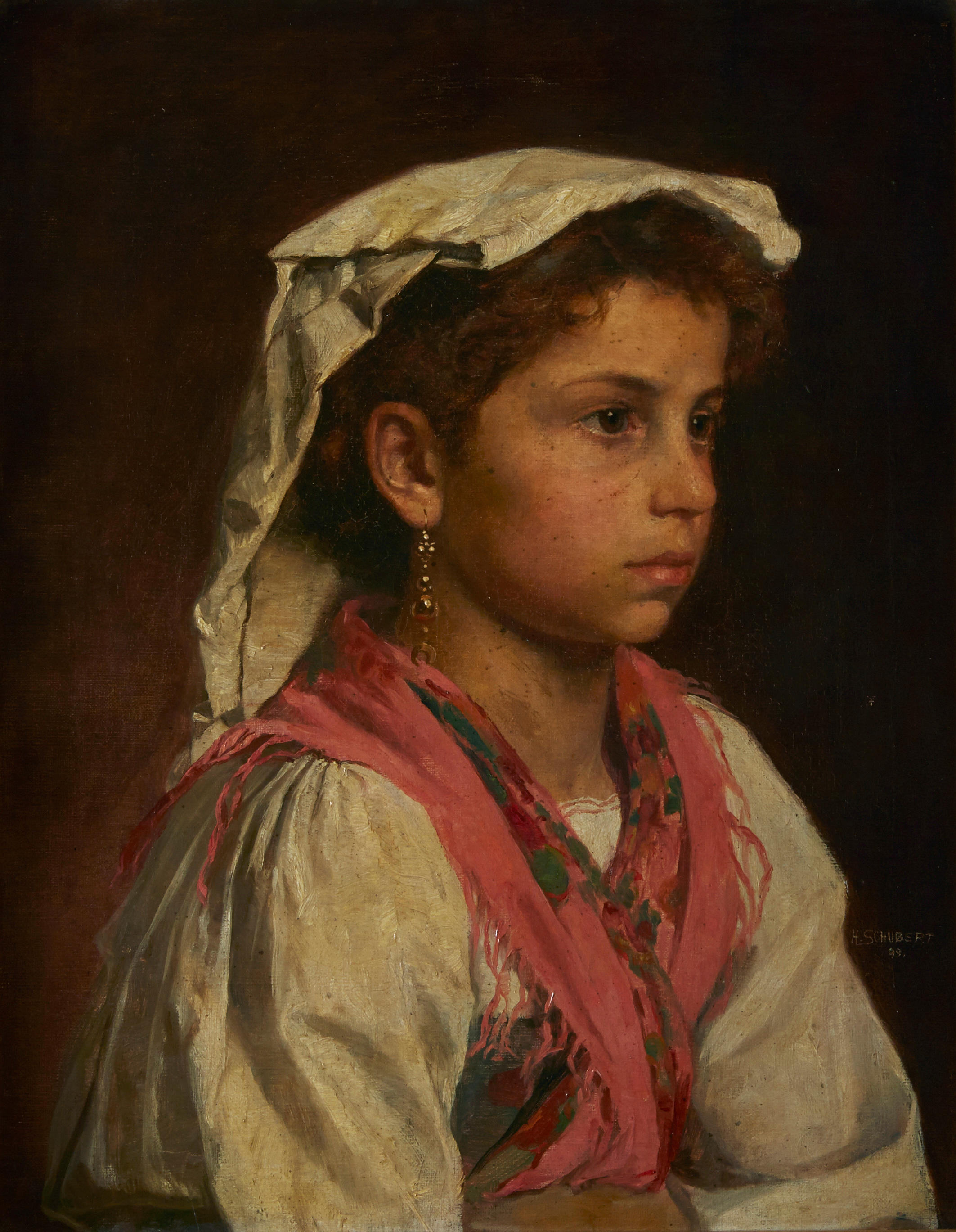 Young Italian girl